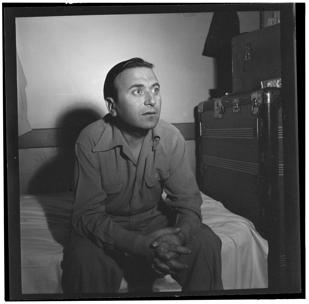 Charlie Spivak, between 1938 and 1948